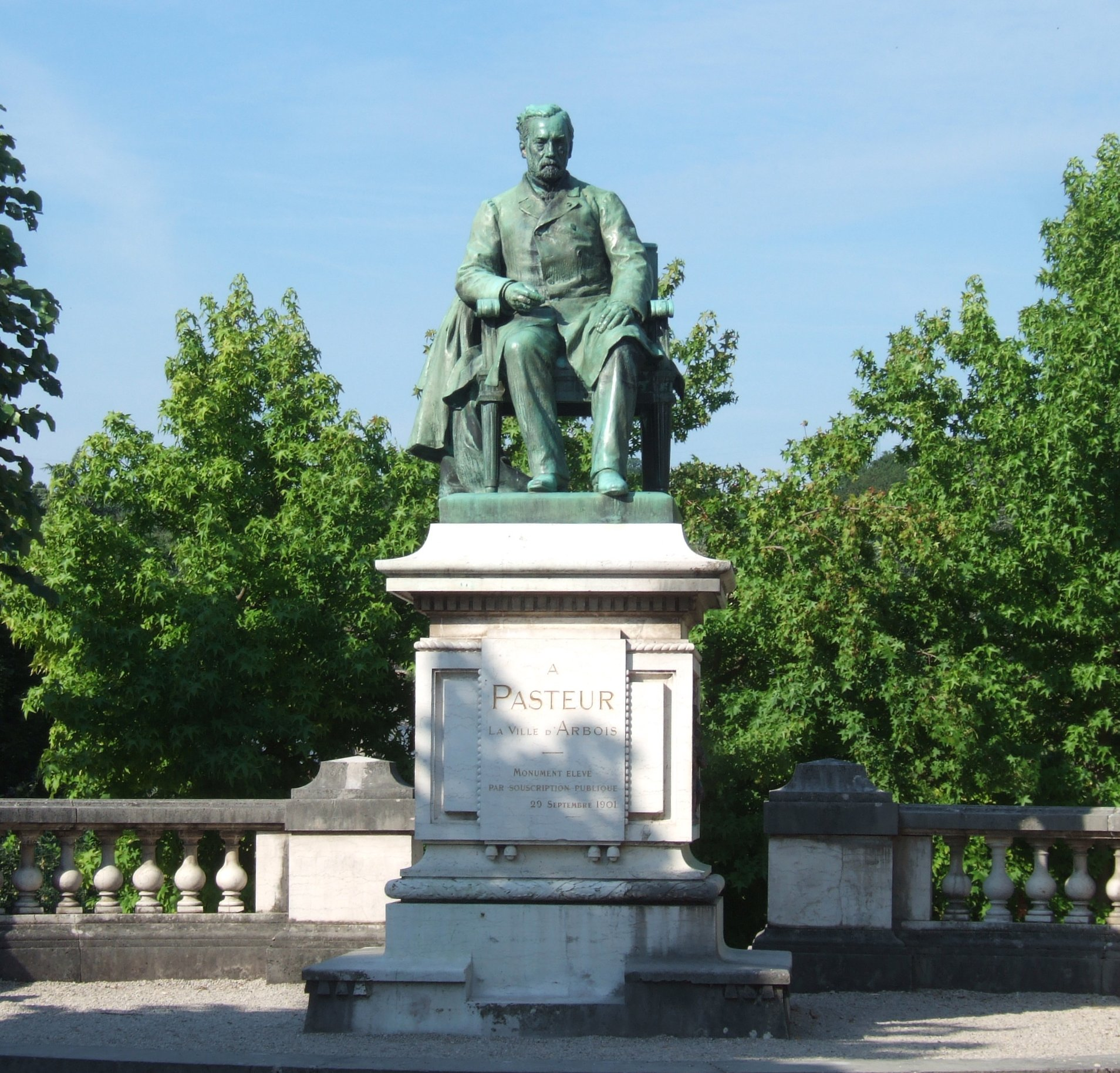 Statue of Pasteur in Arbois